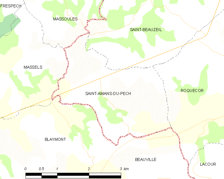 Map of French municipality Saint-Amans-du-Pech